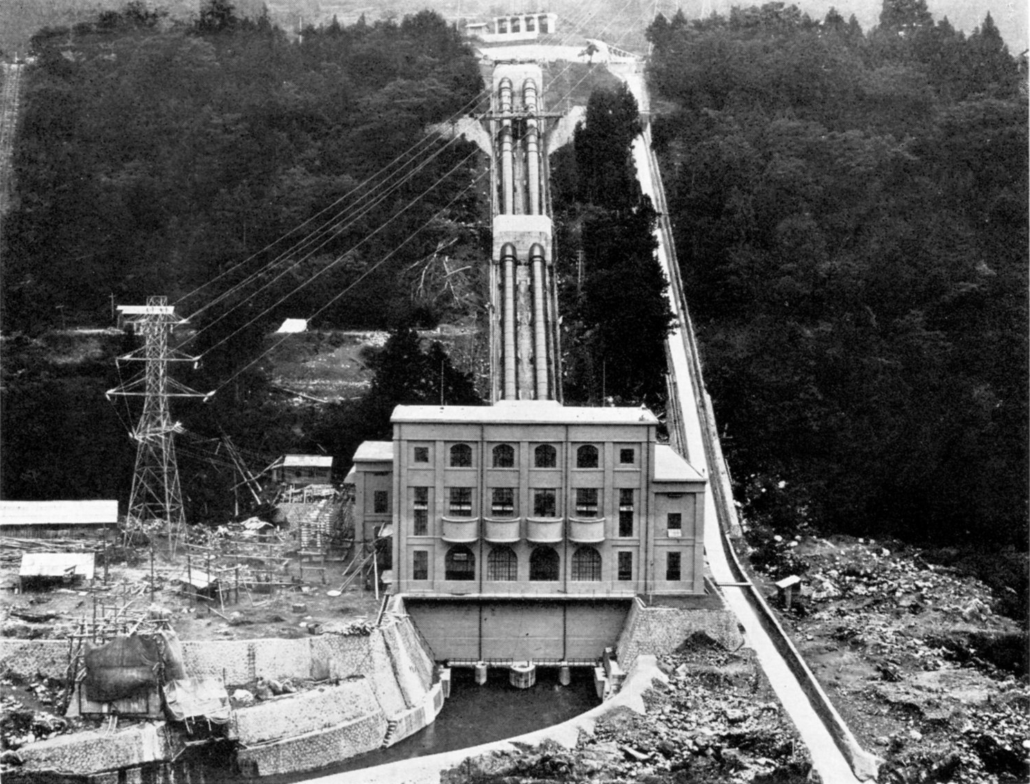 Inotani (old) power station (1929 - 1954?)